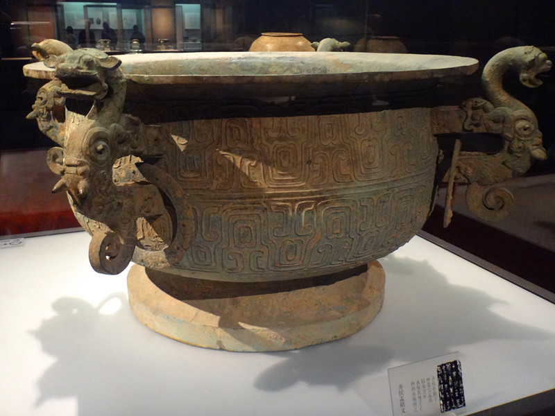 Qi Hou yu(齐侯盂). yu(盂) is a container for water. the vessel was unearthed at Mengjin, Henan in 1957.photographed at Luoyang Museum